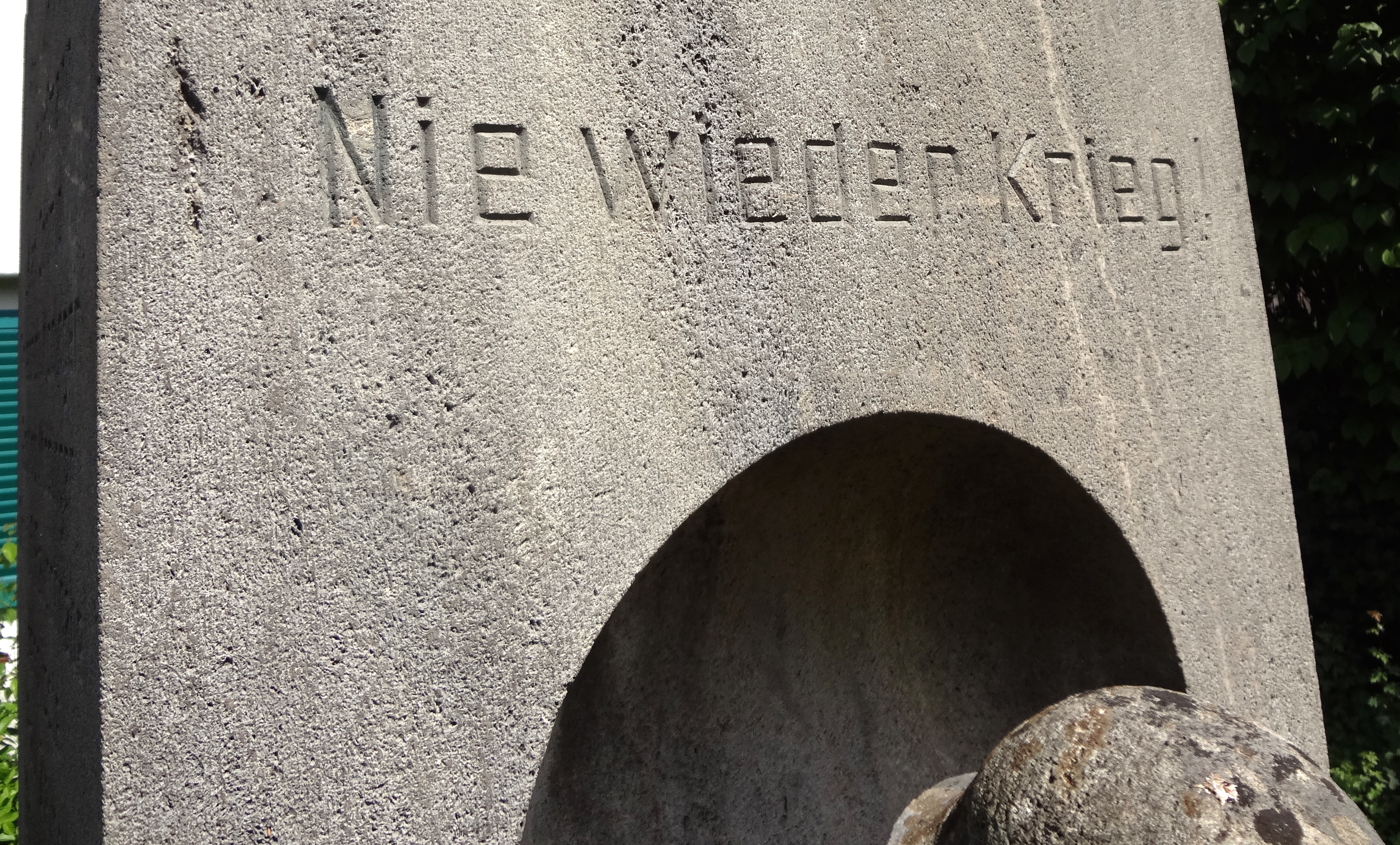 Partial view of War memorial 1914–18 in Strümpfelbach (Weinstadt, Stuttgart, Germany). With the sentence : «Nie wieder Krieg !» (No more war !)